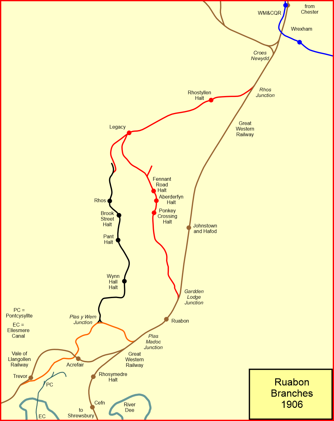 System map of the Railway lines around Ruabon, Wales, in 1906